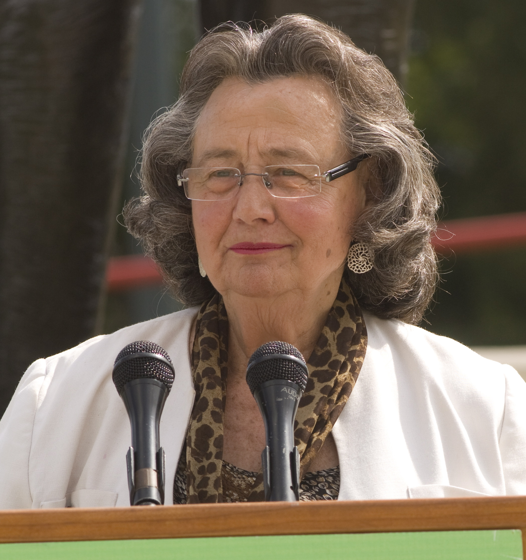 New Orleans City Council Member Jackie Clarkson at Satchmo Summerfest opening ceremony.